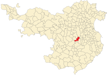 Sant Julià de Ramis